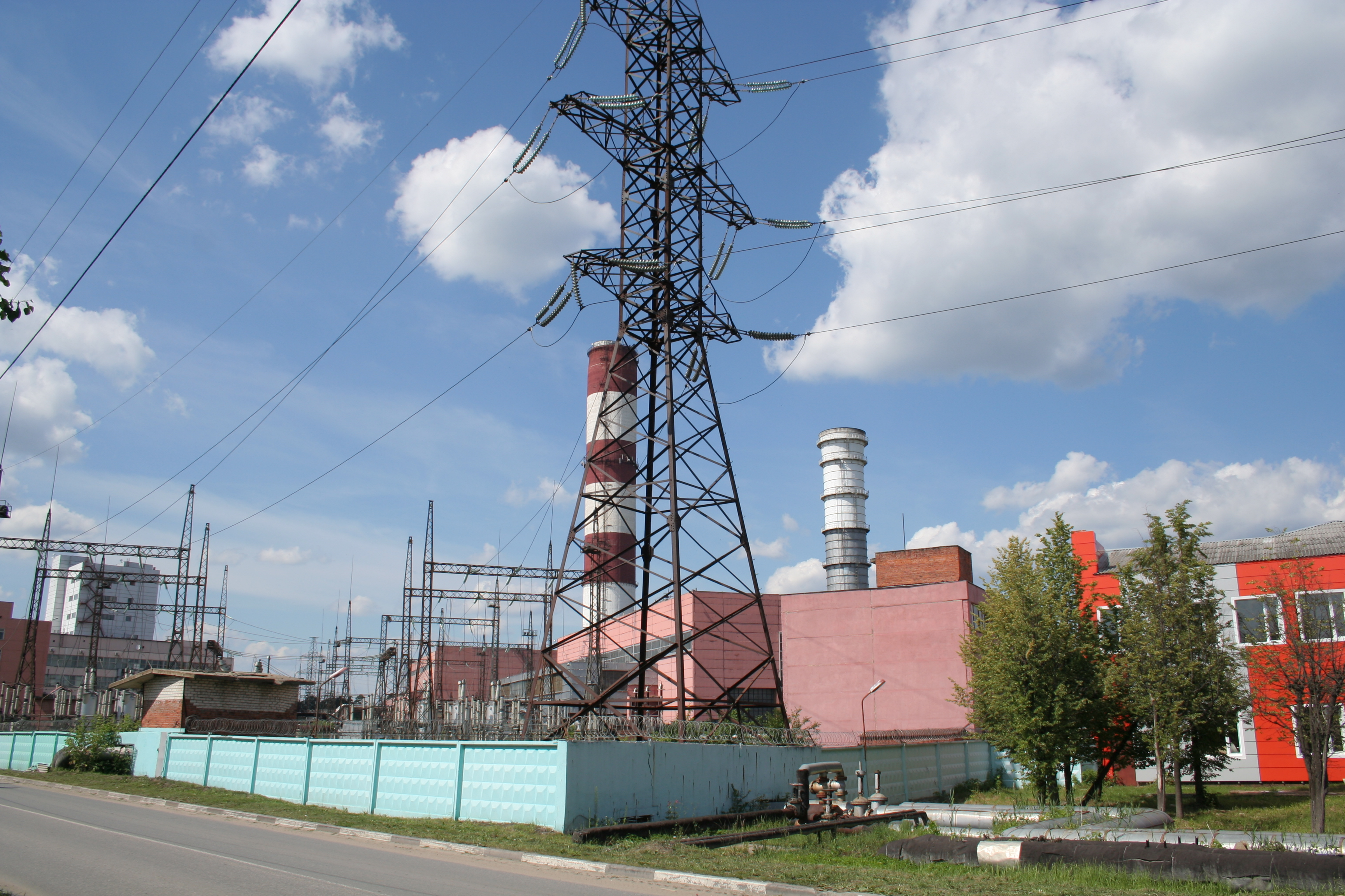 The power station of Elektrogorsk in Russia.